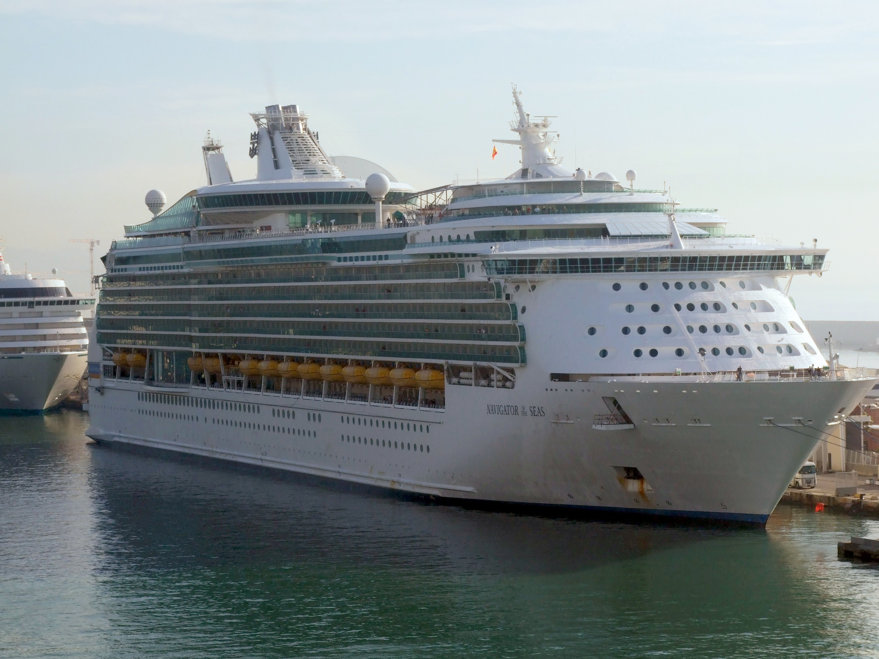 'Navigator of the Seas' docked in Barcelona